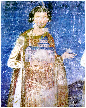 Fresco of King Stefan Vladislav (1233-1243) in the Mileševa monastery.